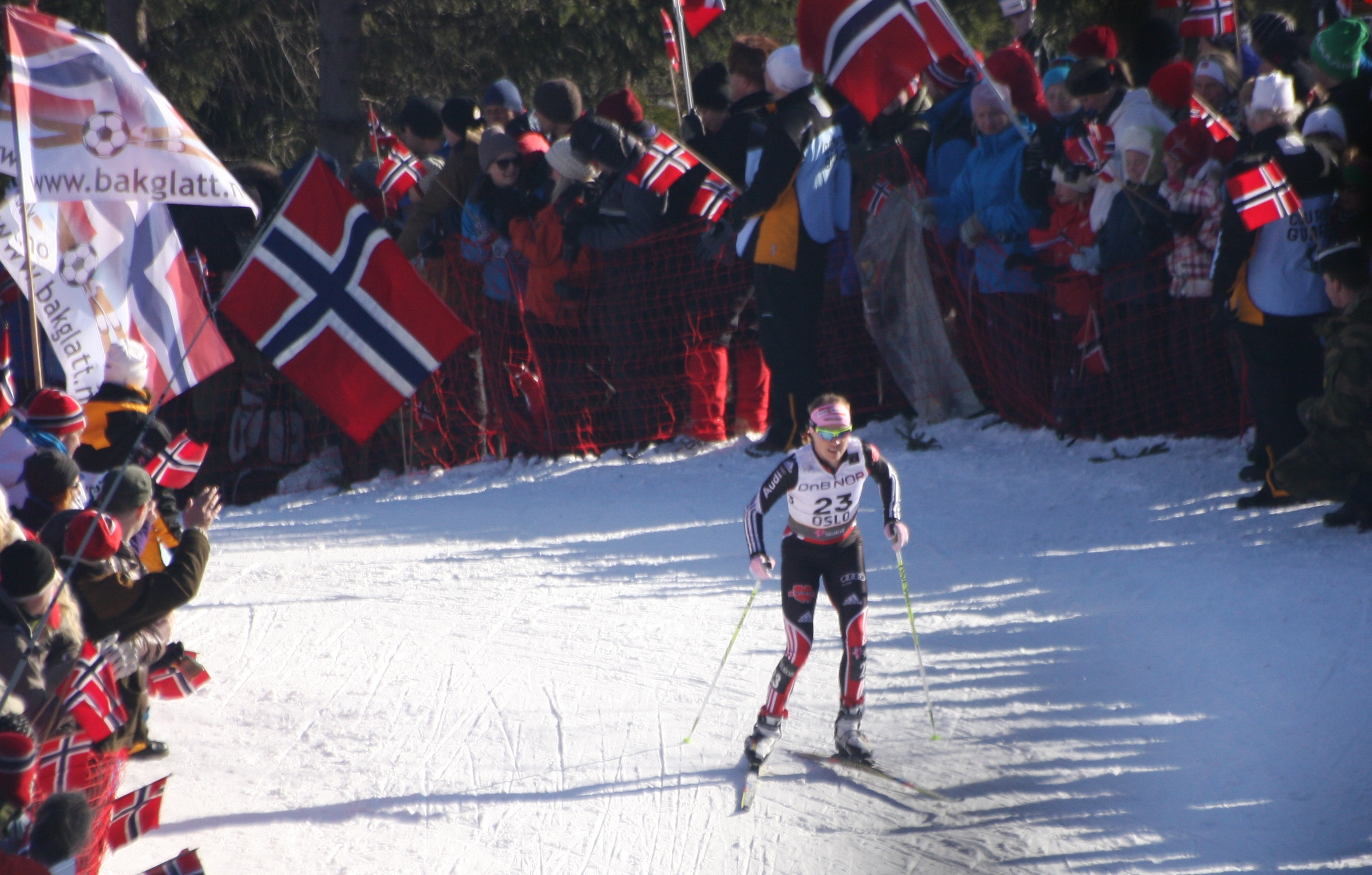 Evi Sachenbacher, Germany, going as number 12 at 17 km of the women's 30 km in Nordic Ski World Championship Oslo 2011.